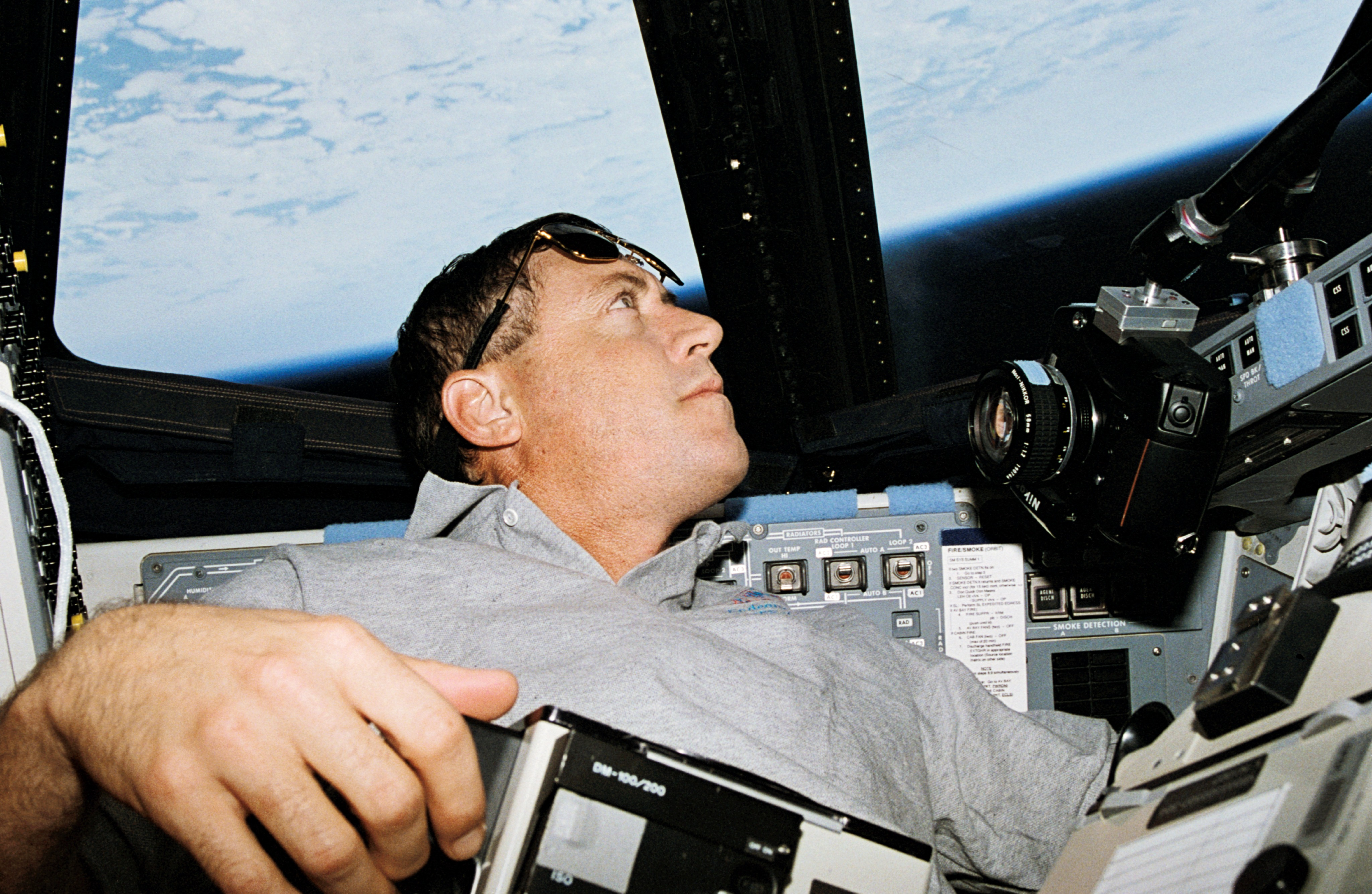 STS068-084-012 (30 September-11 October 1994) --- Astronaut Michael A. Baker, STS-68 mission commander, eyes a photographic target of opportunity on Earth. Baker was joined by five other NASA astronauts for eleven days aboard the Space Shuttle Endeavour in Earth-orbit, in support of the Space Radar Laboratory-2 (SRL-2) mission.